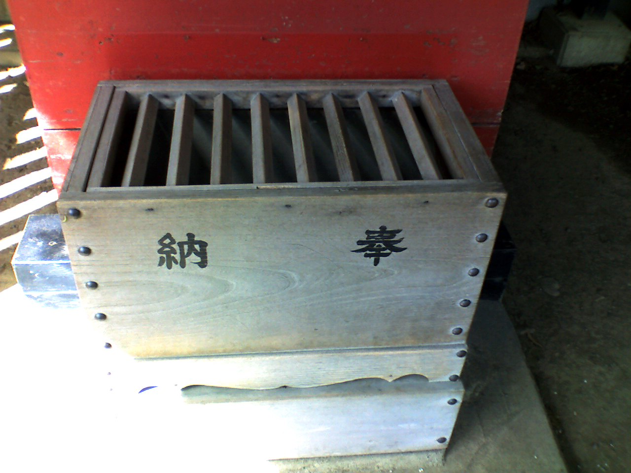 Japanese offertory box(Shrine)